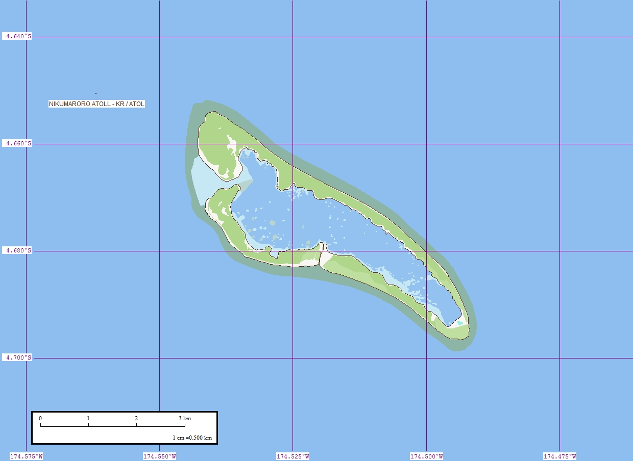 Map of Nikumaroro, Phoenix Islands, Kiribati